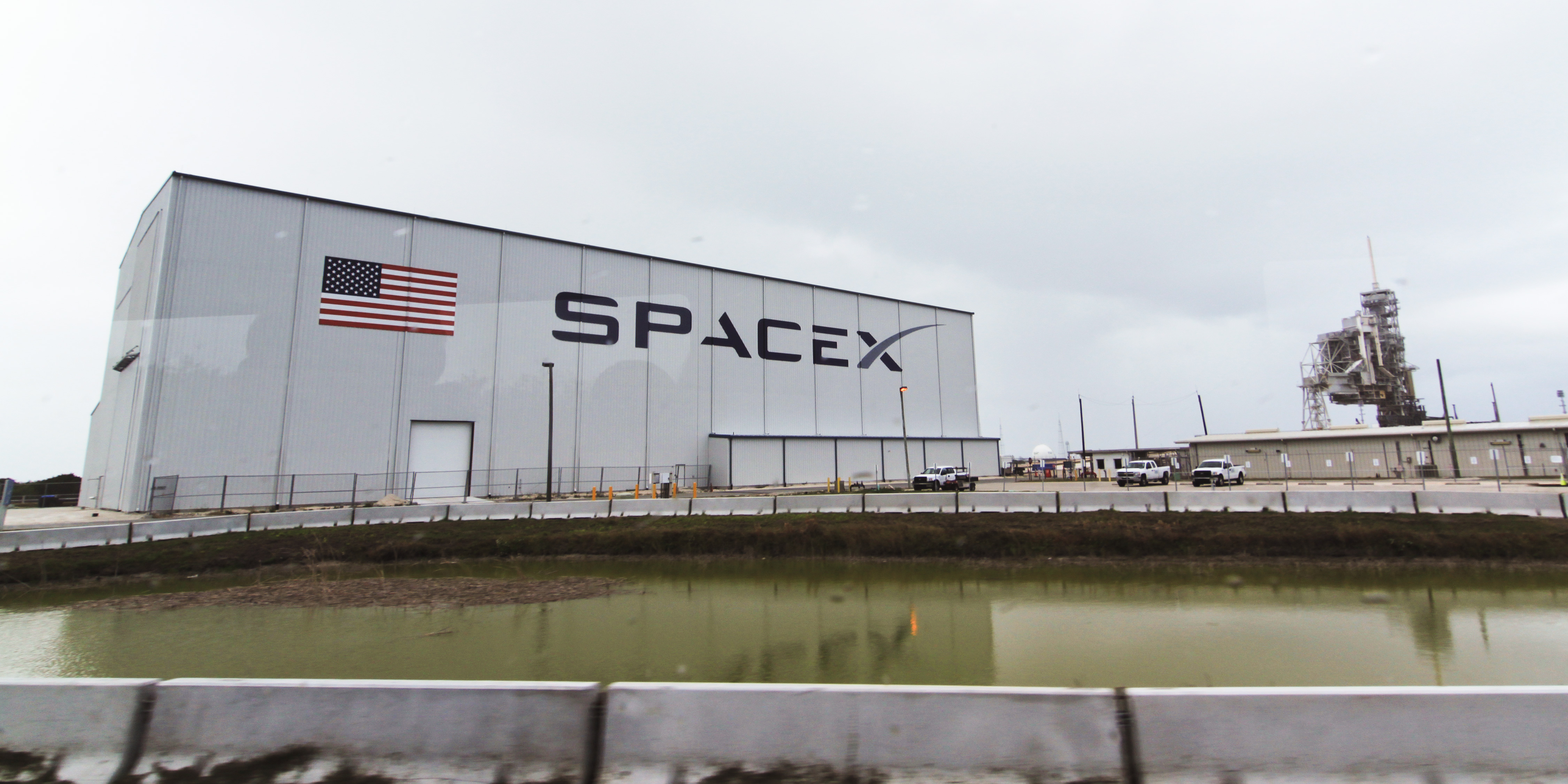 SpaceX's rocket hangar at Kennedy Space Center SLC-39A